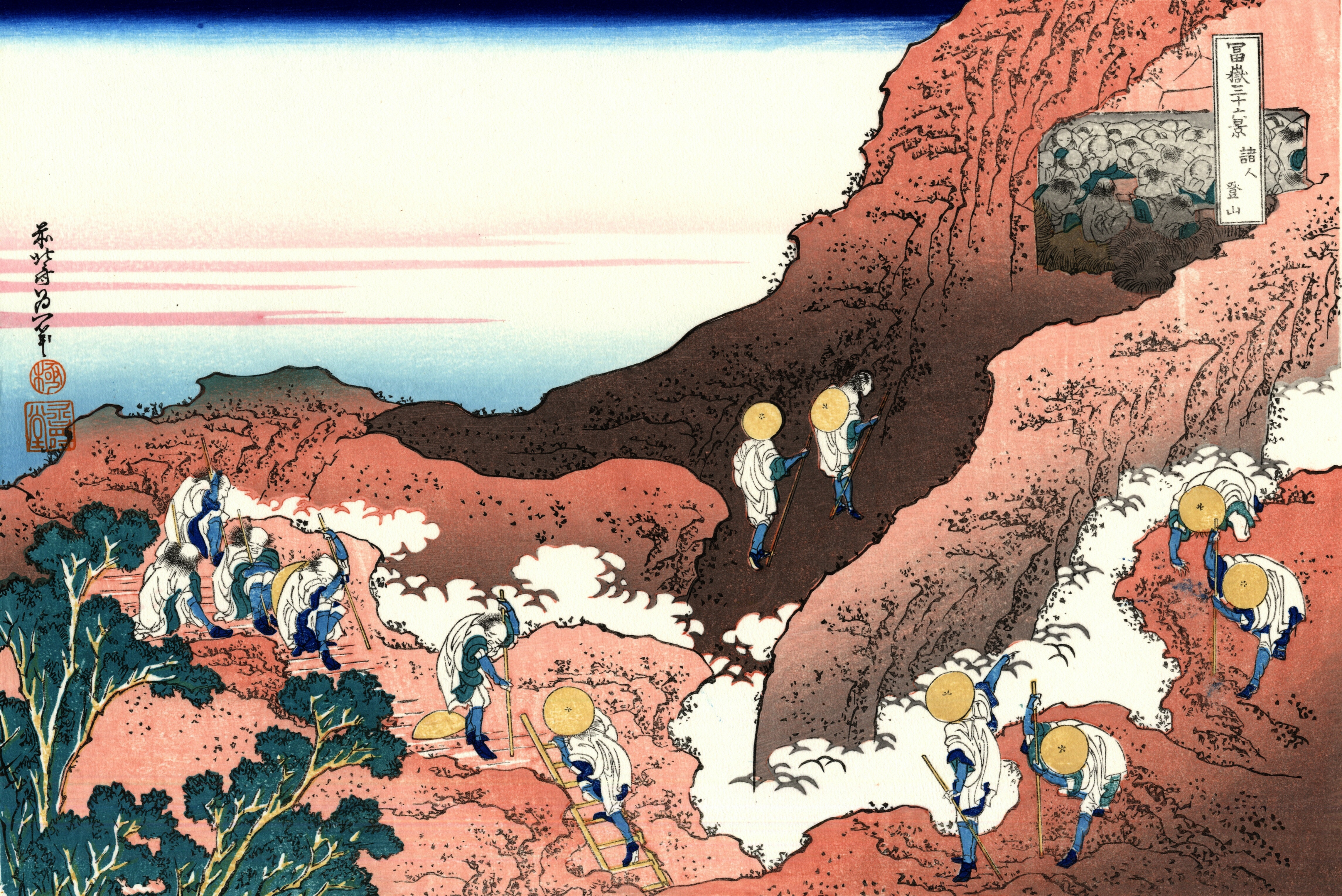 Part of the series Thirty-six Views of Mount Fuji, no. 34.